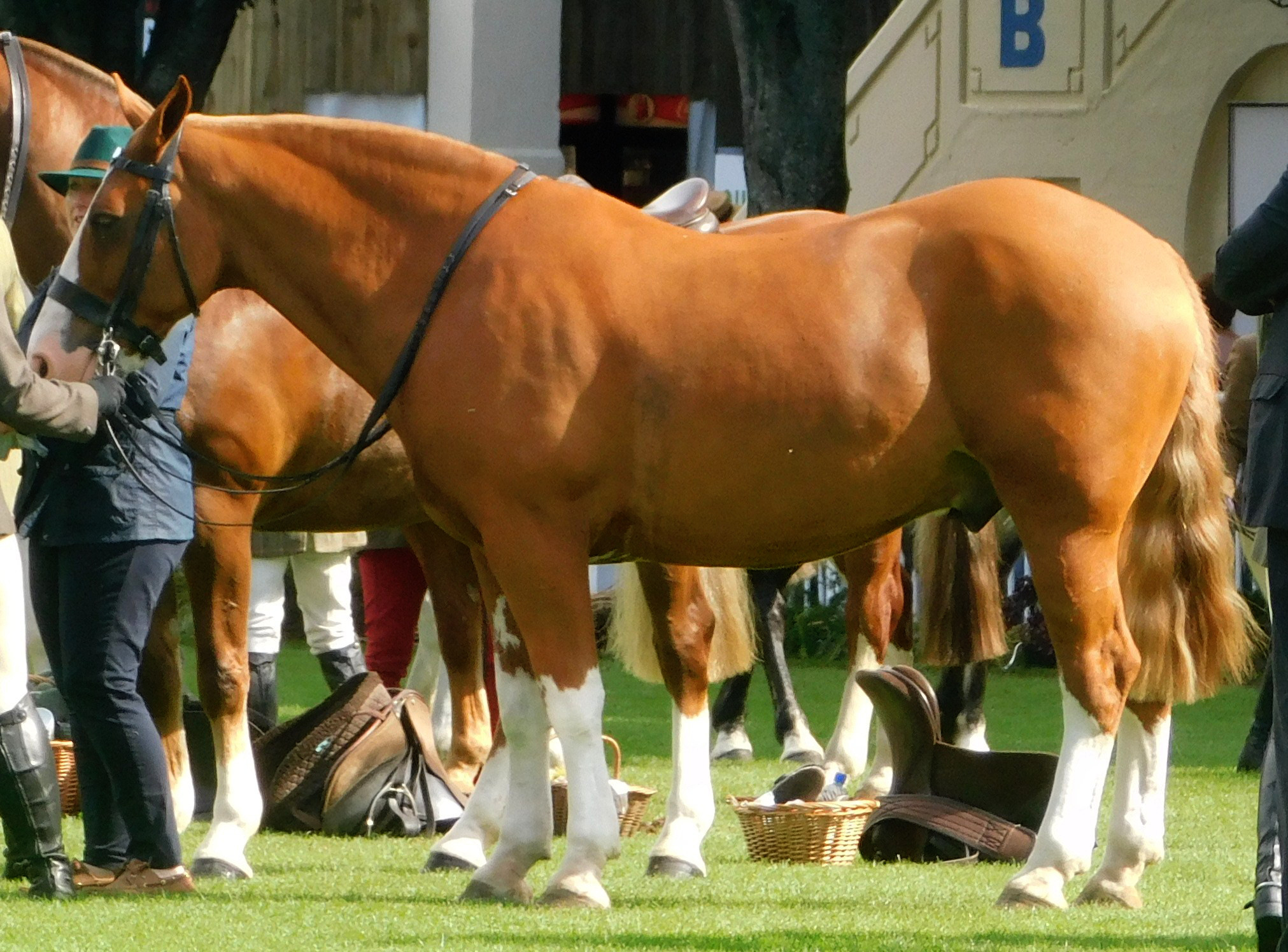 Dublin Horse Show 2017, Class 22 Cobs (Light-Weights) - Gentle Giant [IHR 20029608] (Irish Cob).